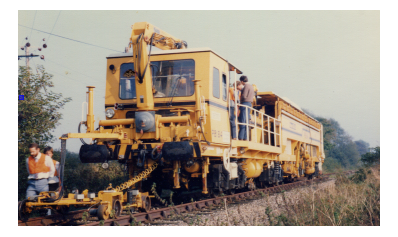 This is a photograph, at a distance, of the PBI'84 operating in its measurement phase.